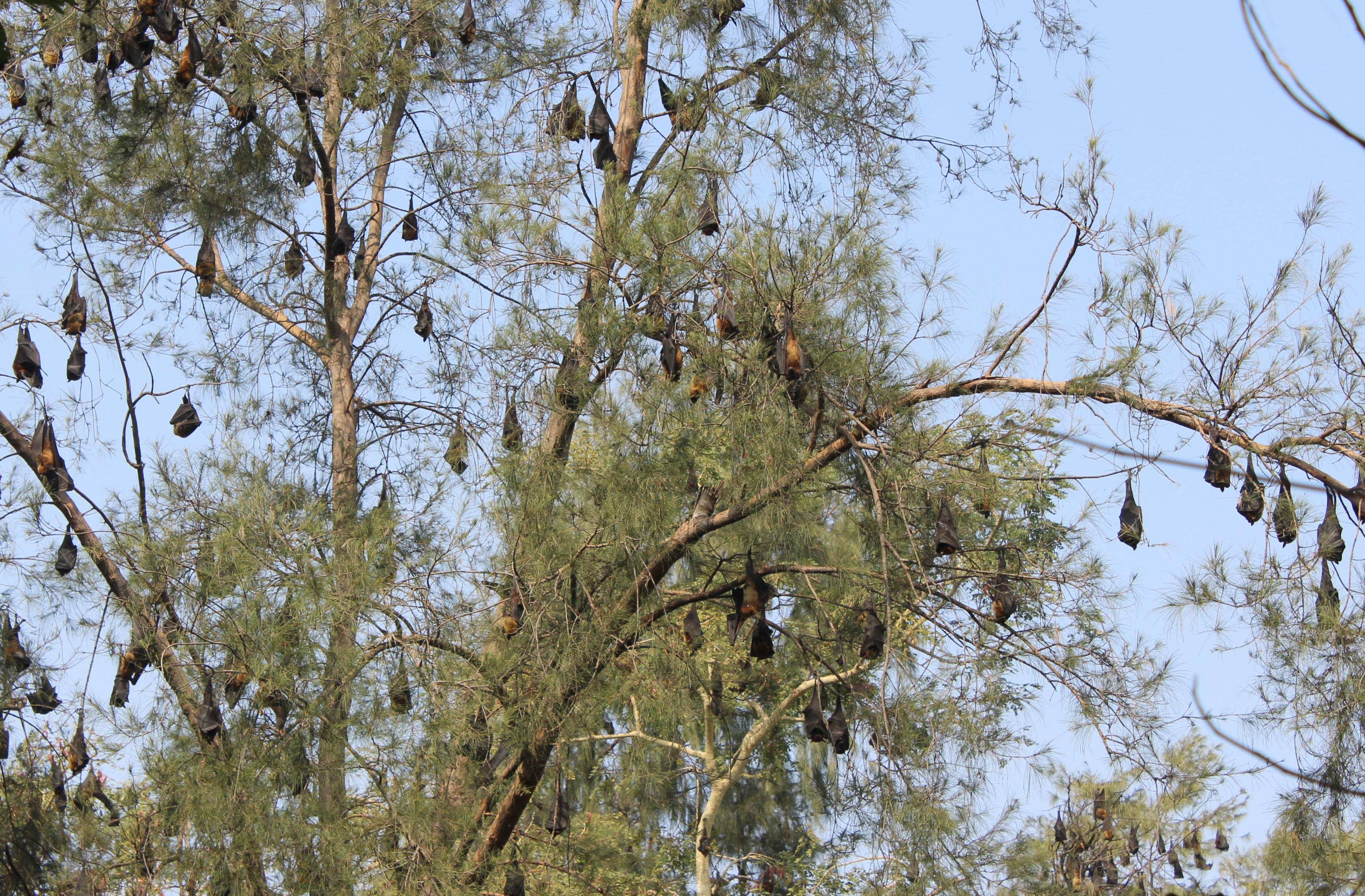 Fruit bats roosting in trees